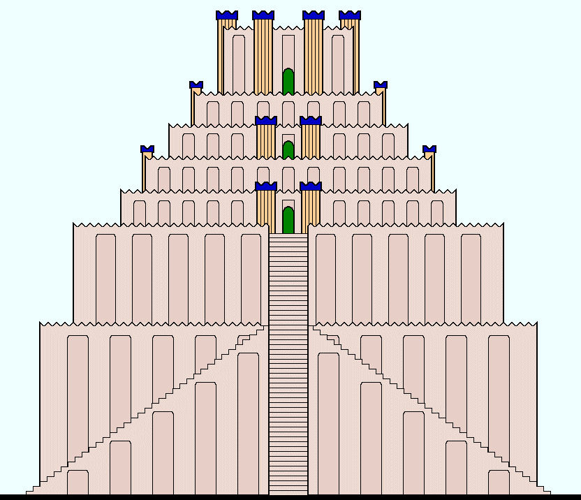 Reconstruction of the Etemenanki, based on Hansjörg Schmid, Der Tempelturm Etemenanki in Babylon (1995 Mainz)